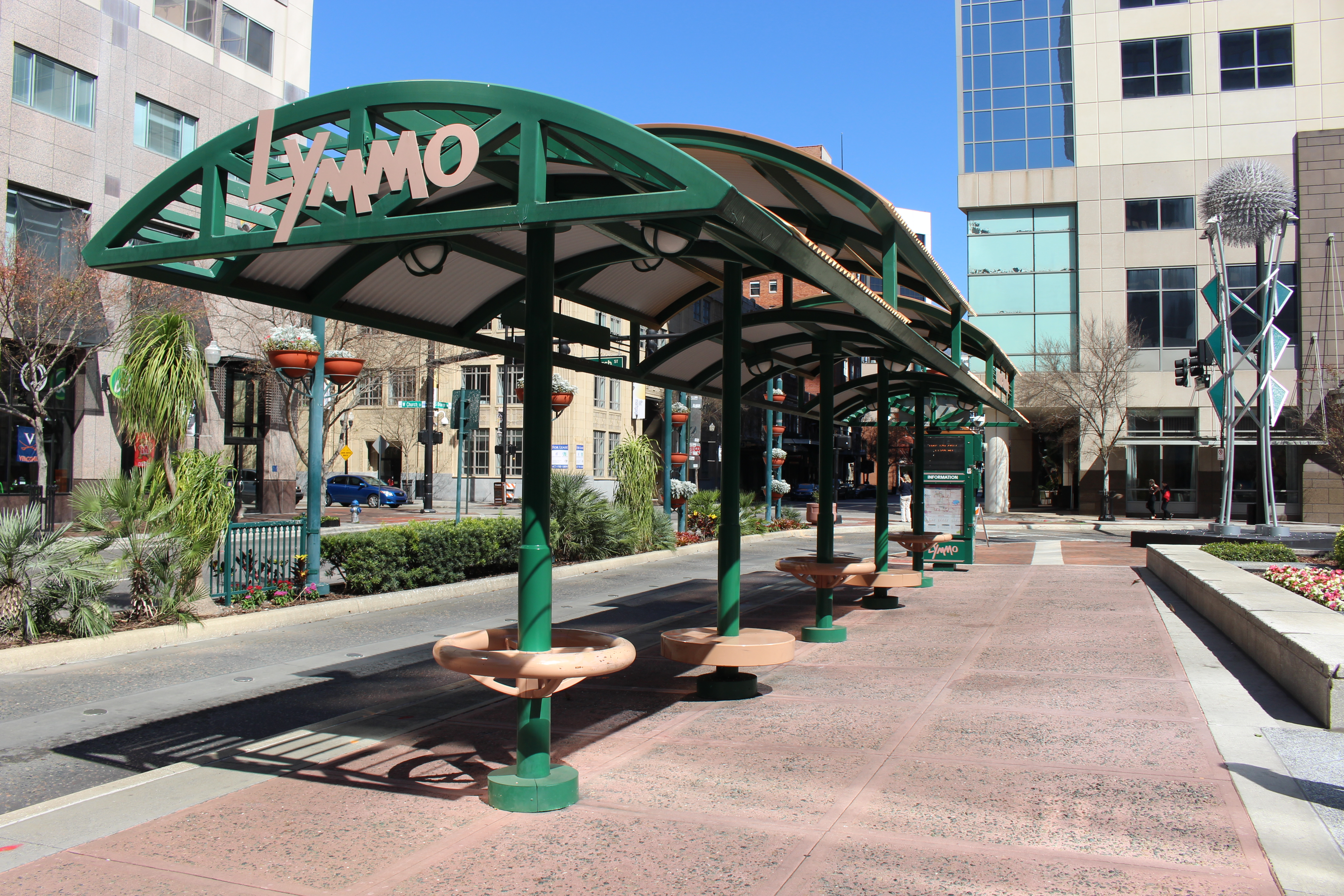 Orlando, Orange County, Florida